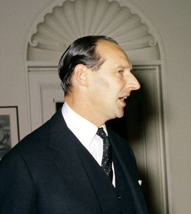 President John F. Kennedy meets with Ambassador of Great Britain, Sir David Ormsby-Gore. Ambassador Ormsby-Gore; President Kennedy. Oval Office, White House, Washington, D.C.